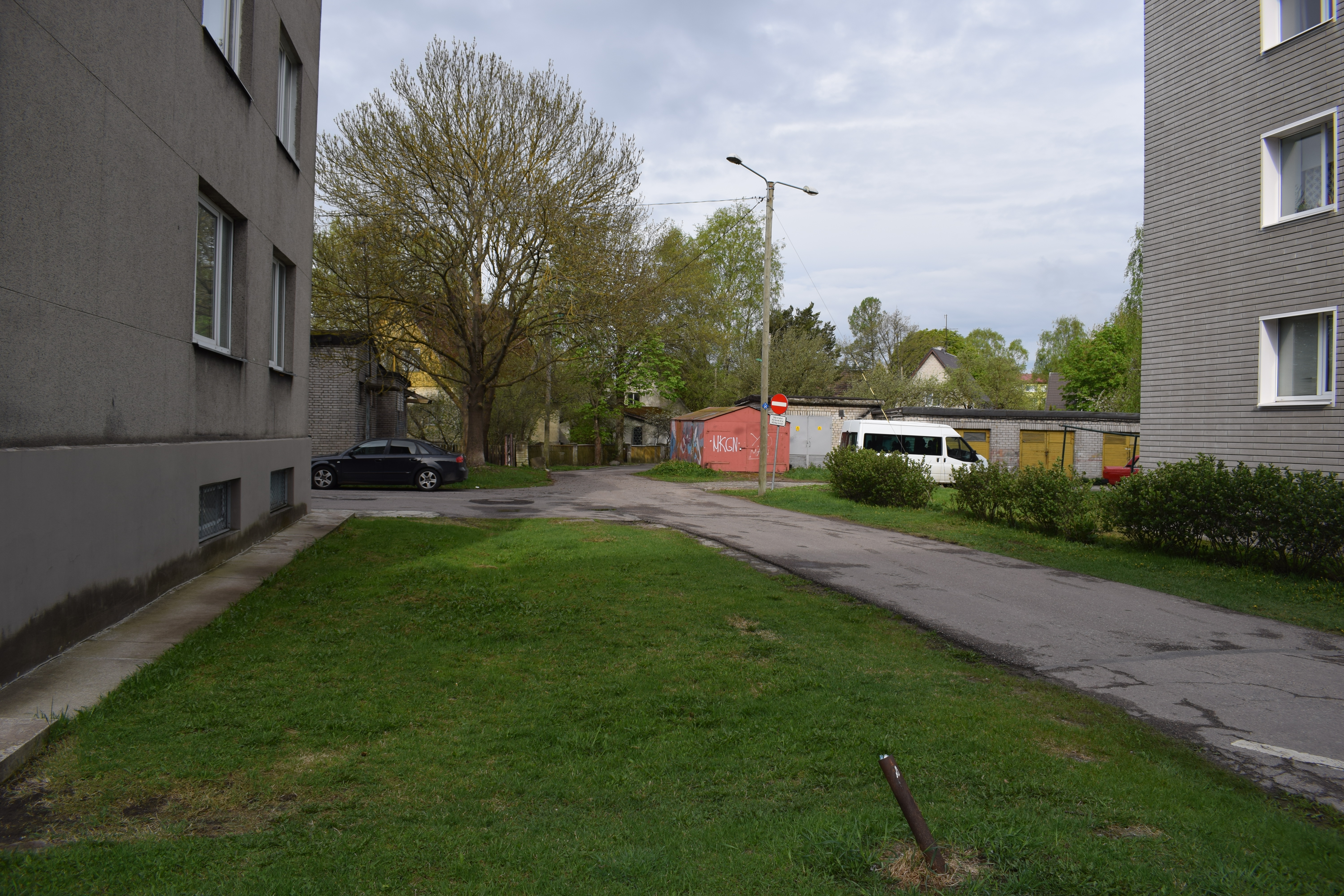 Nepi tänav